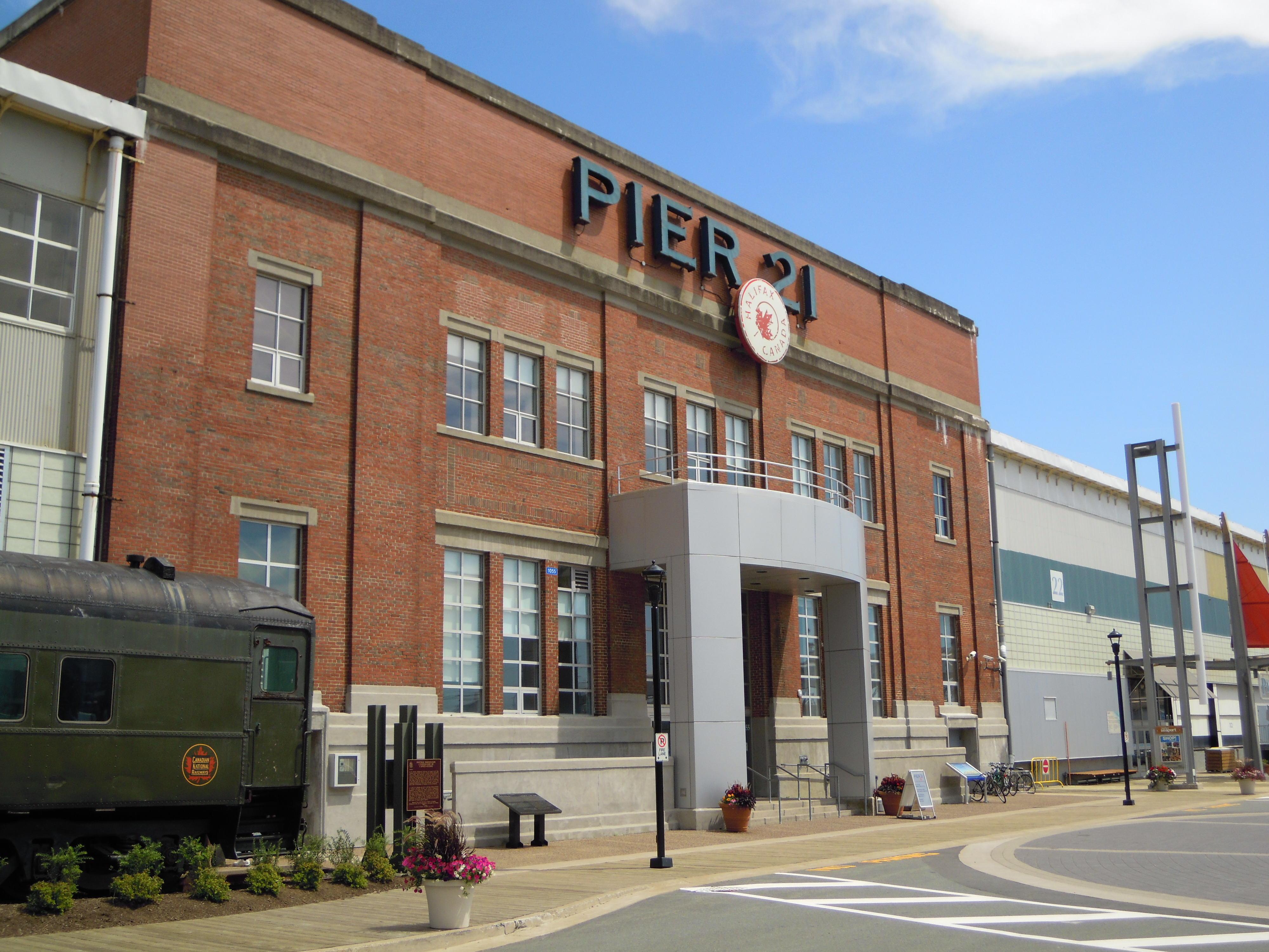 Exterior of Pier 21, Halifax, Nova Scotia, Canada.